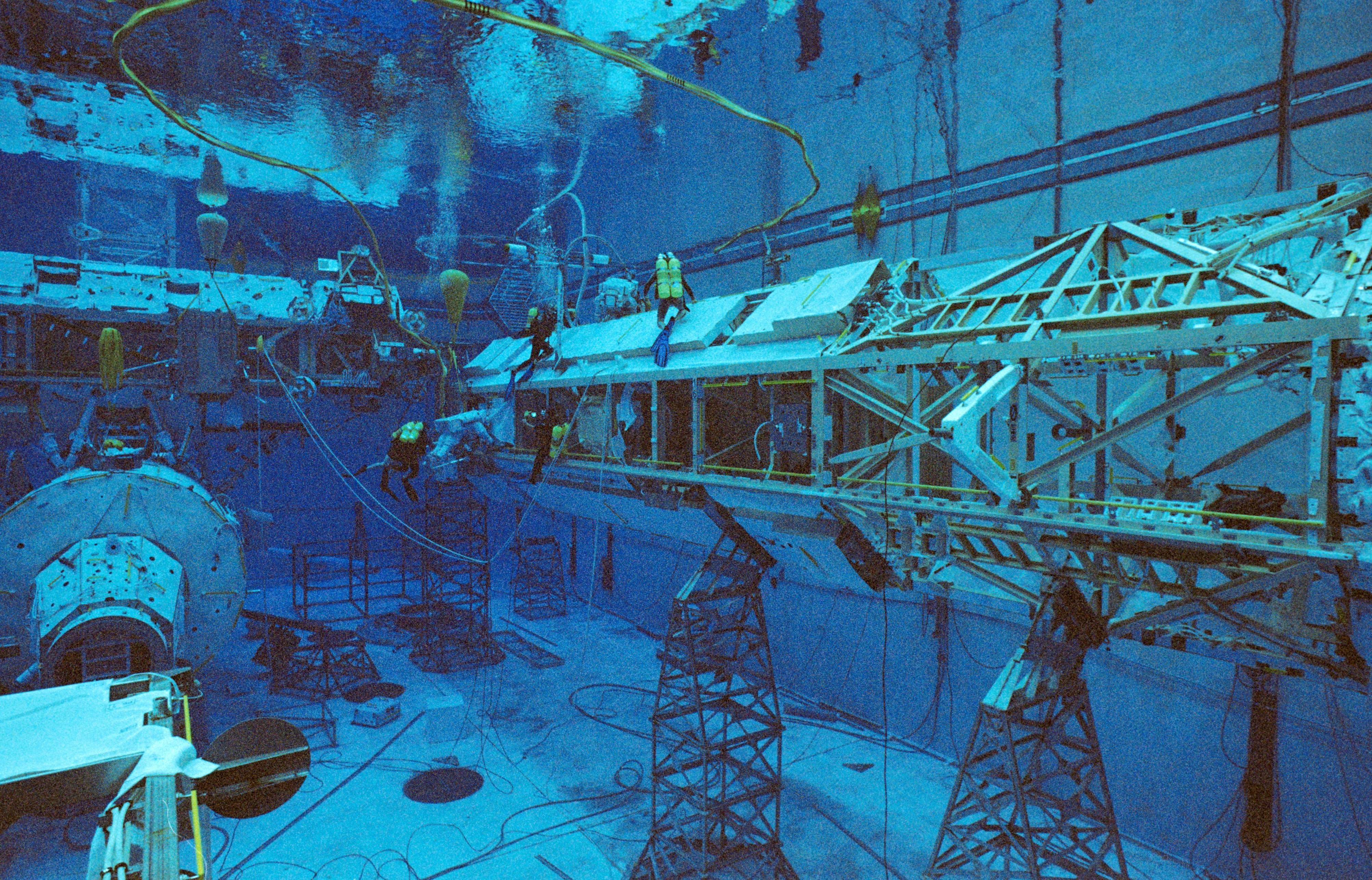 JSC2003-00016 (7 January 2003) --- Astronauts Robert L. Curbeam, Jr. and Christer Fuglesang, STS-116 mission specialists, wearing training versions of the Extravehicular Mobility Unit (EMU) spacesuit, participate in an underwater simulation of extravehicular activity (EVA) scheduled for the 19th shuttle mission to the International Space Station (ISS). Curbeam and Fuglesang are dwarfed by station truss segments in this overall view of the simulation conducted in the Neutral Buoyancy Laboratory (NBL) near the Johnson Space Center. Fuglesang represents the European Space Agency (ESA).